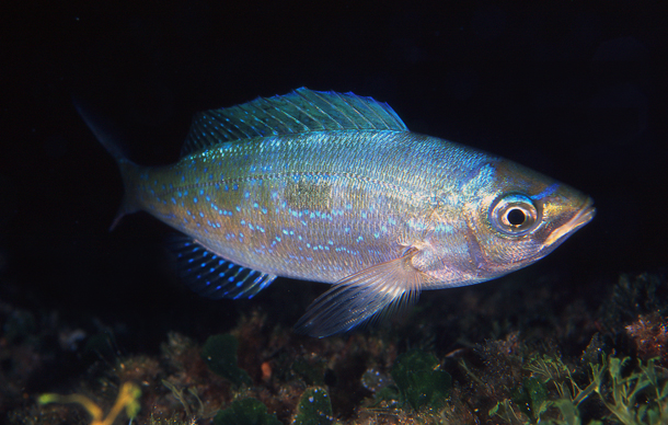 Female or unsexed Spicara maena photographed in Tuscany (Italy). Photo by Stefano Guerrieri.